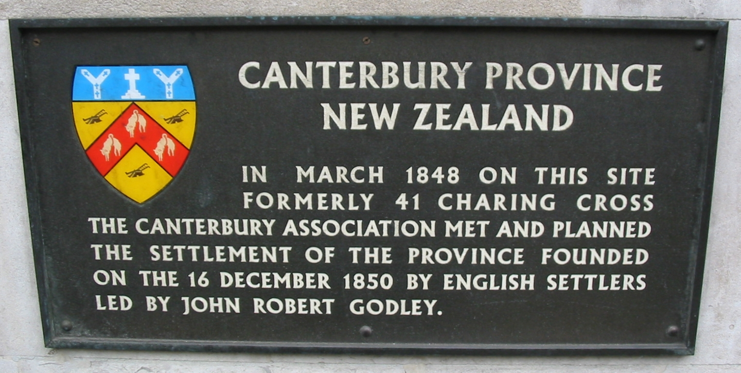 London